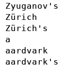 The section of the file demonstrates the sorting in the word list "words", which can be used to check spelling on UNIX and unixoid operating systems.